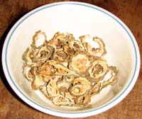 Dried Gohyah slices prepared for use as tea.